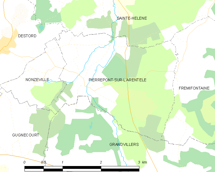 Map of French municipality Pierrepont-sur-l'Arentèle